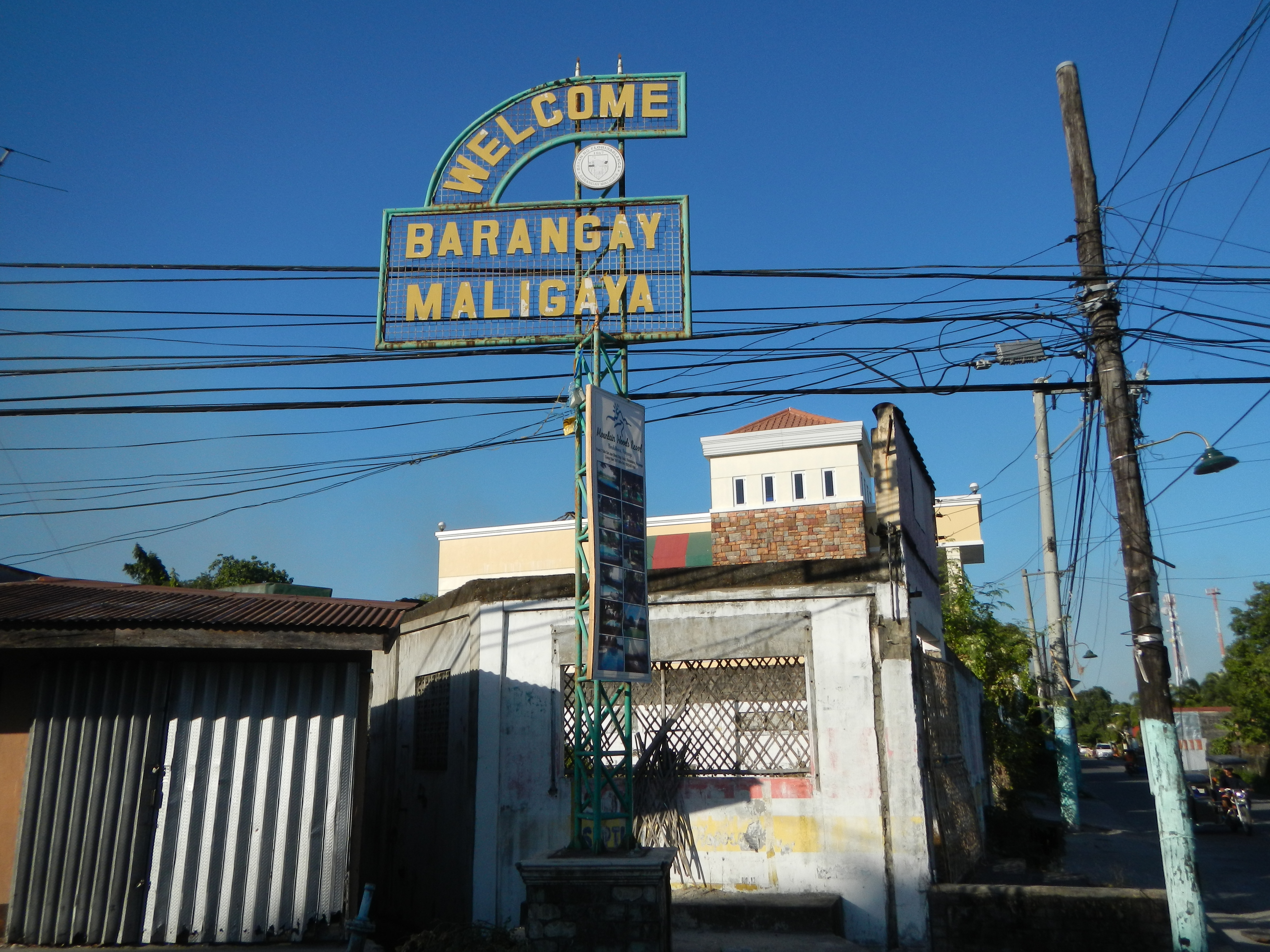 Barangay Maligaya, Floridablanca, Pampanga connected by San Agustin Bridge KM 91+134 to Barangay Fortuna, Floridablanca, Pampanga connected by Fortuna Bridge KM 91-231 over Pampanga Creek to River from Barangay Poblacion, Floridablanca, Pampanga.